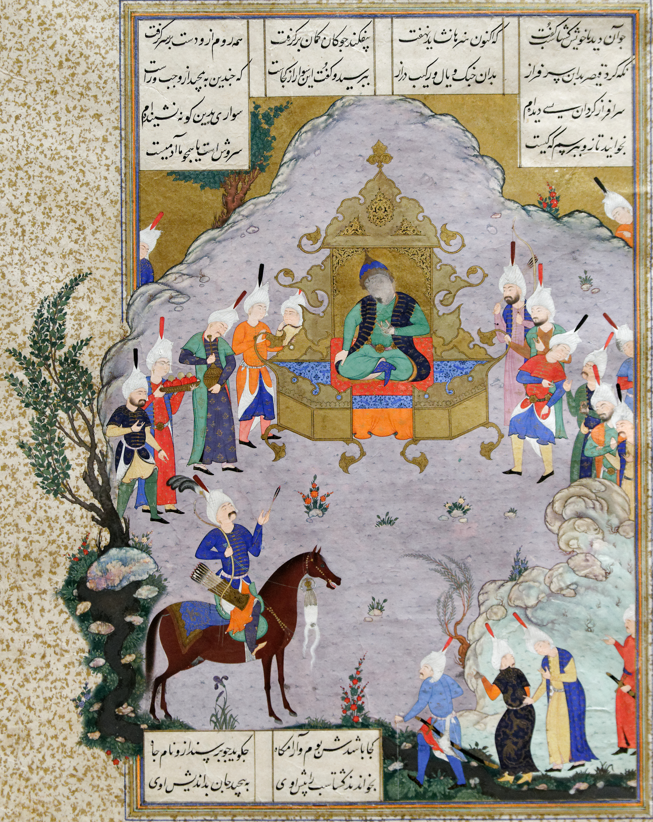 Folio from Shah Tahmasp's Shahnameh: Gushtasp proves his archery before Caesar.